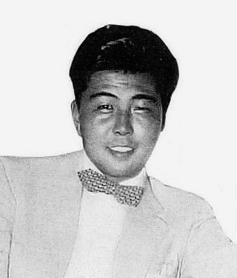 Fumitaka Konoe